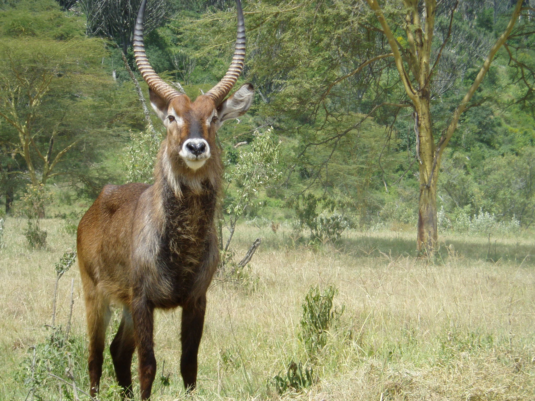 A Defassa waterbuck (Kobus ellipsiprymnus) standing tall in Lake Nakuru National Park